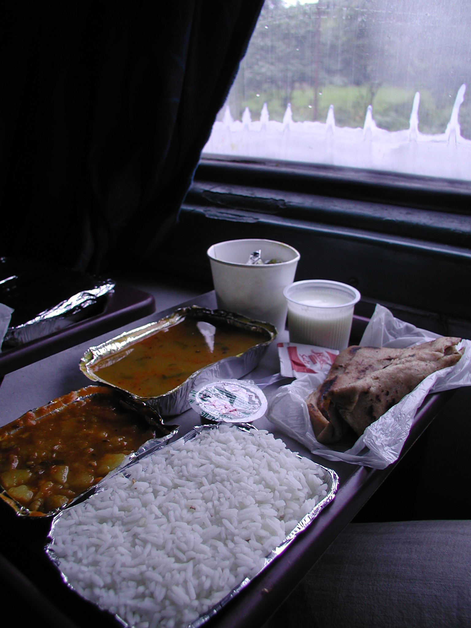 Onboard menu in a train of the Indian Railways